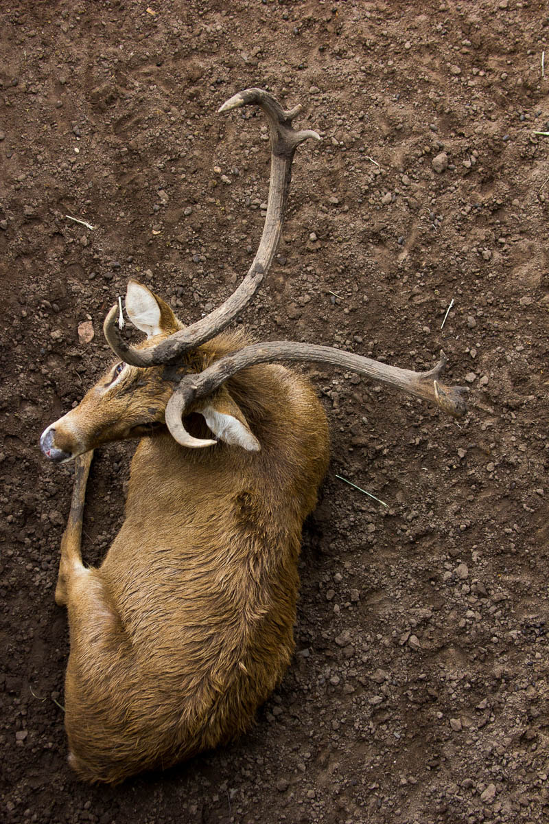 500px provided description: Above a buck at Saigon Zoo. [#brown ,#hair ,#zoo ,#vietnam ,#deer ,#dirt ,#mud ,#saigon ,#above ,#antlers ,#buck]